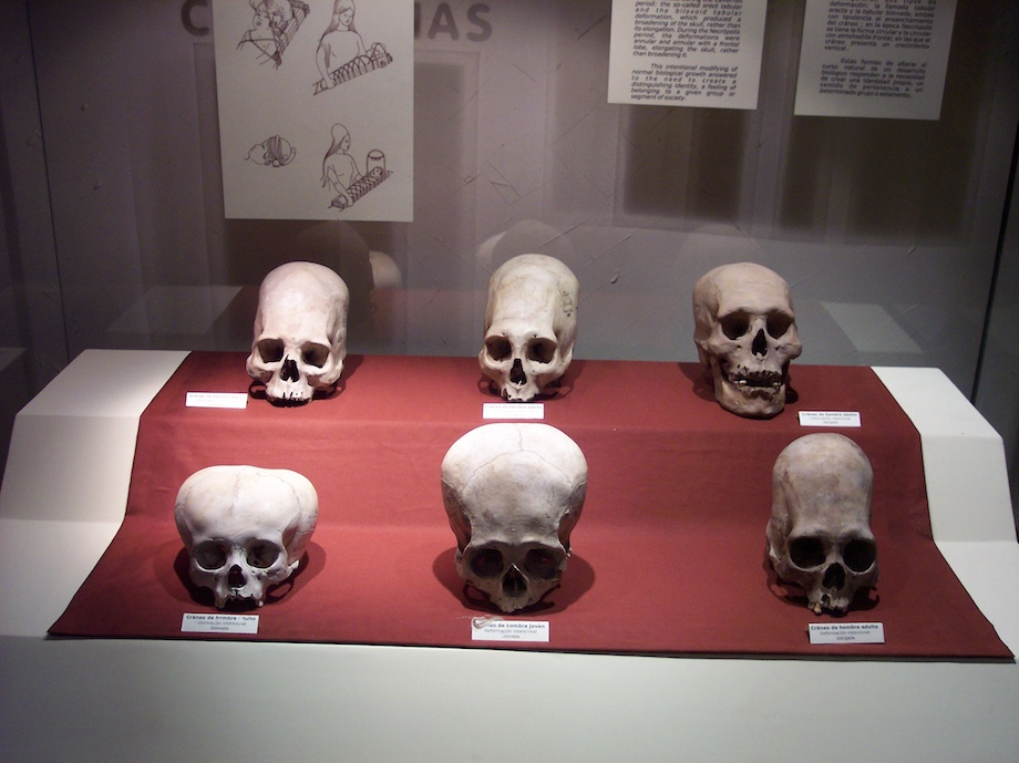 A case of skulls from the Andean Paracas culture, as seen in the Museo Nacional de Arqueología, Antropología e Historia del Perú in Lima. They illustrate head flattening practiced in this culture's elite.